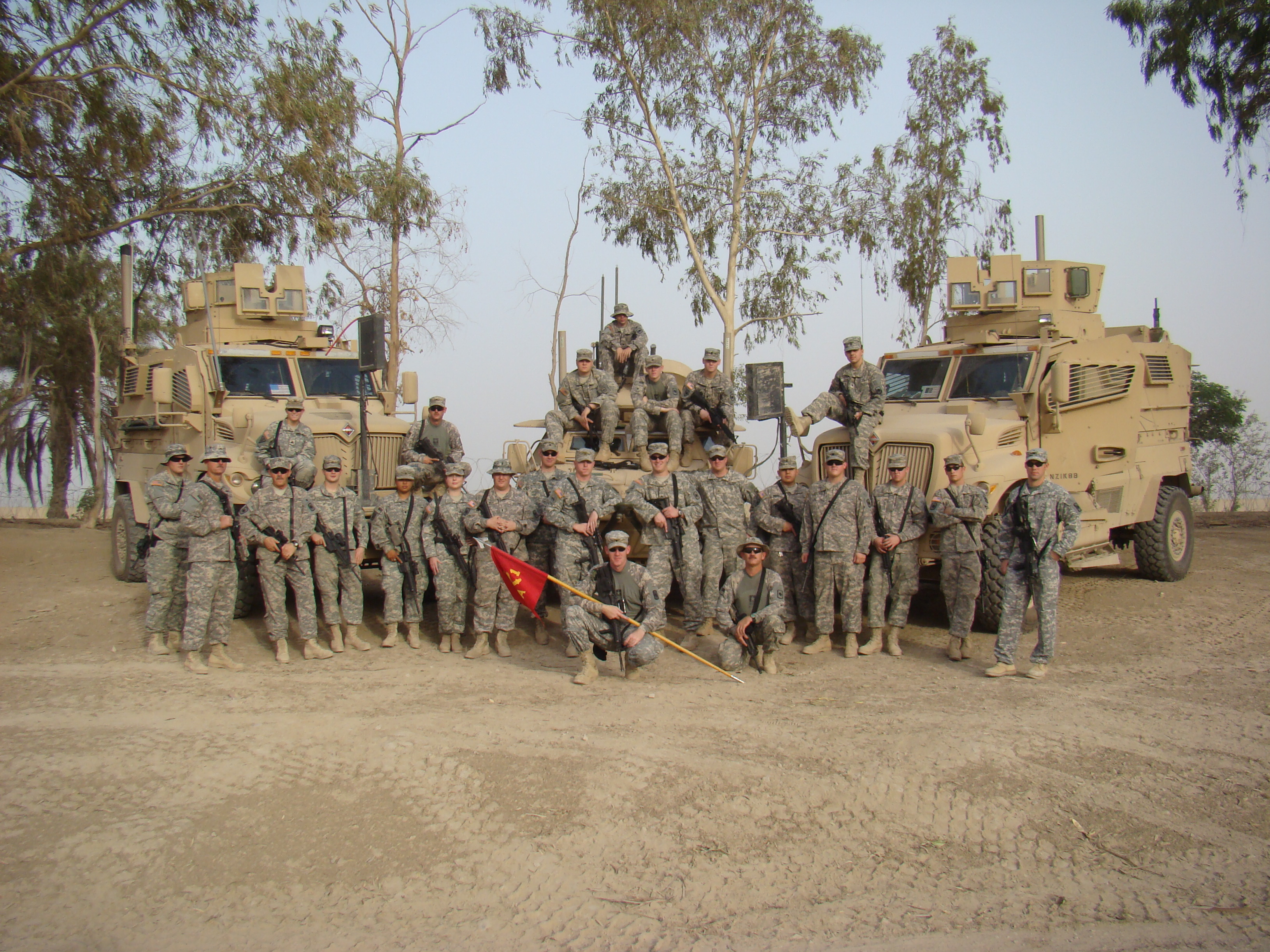 Soldiers of 1st Combat Escort Team (On Mission 1), 1st Platoon, Alpha Battery, 1-206th FA (less two soldiers on leave) during operations at Camp Liberty, VBC, Baghdad, Iraq, OIF 08-09, with two of our new MRAPs and one ASV.